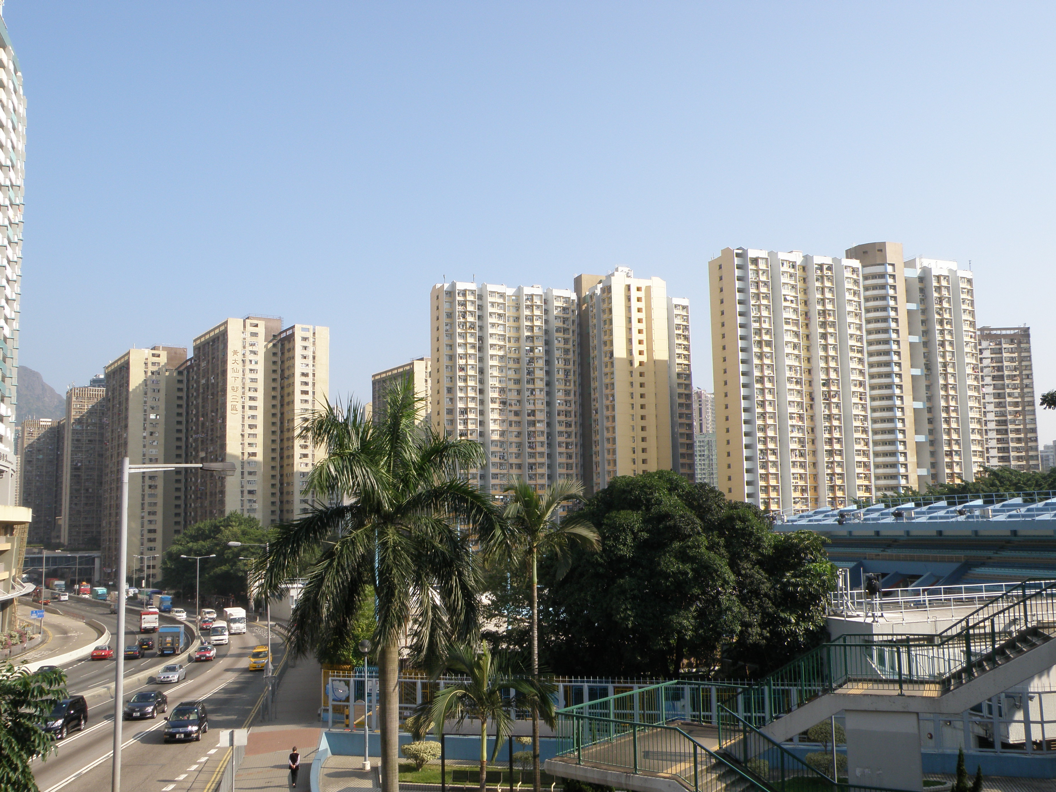 Lower Wong Tai Sin (II) Estate in Wong Tai Sin, Hong Kong.